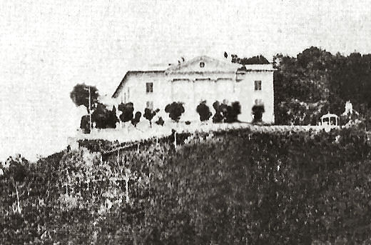 Genoa (Italy), quarter of Rivarolo, Villa Rina (no longer exsisiting) in an old photo